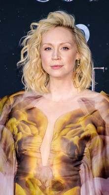 Gwendoline Christie at the Game of Thrones Season 8 World Premiere at Radio City Music Hall, April 3, 2019. Photo by Sachyn Mital.